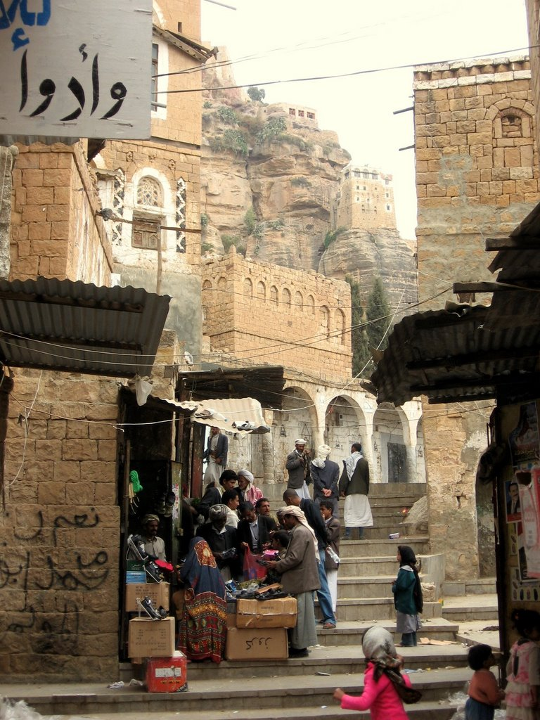 but something is still open... the quat market